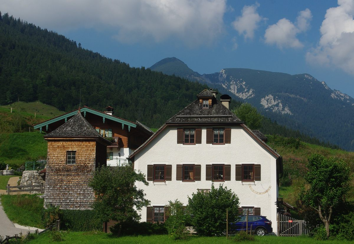 Brunnhaus Grub in Weißbach a.d.A. This is a photograph of an architectural monument.